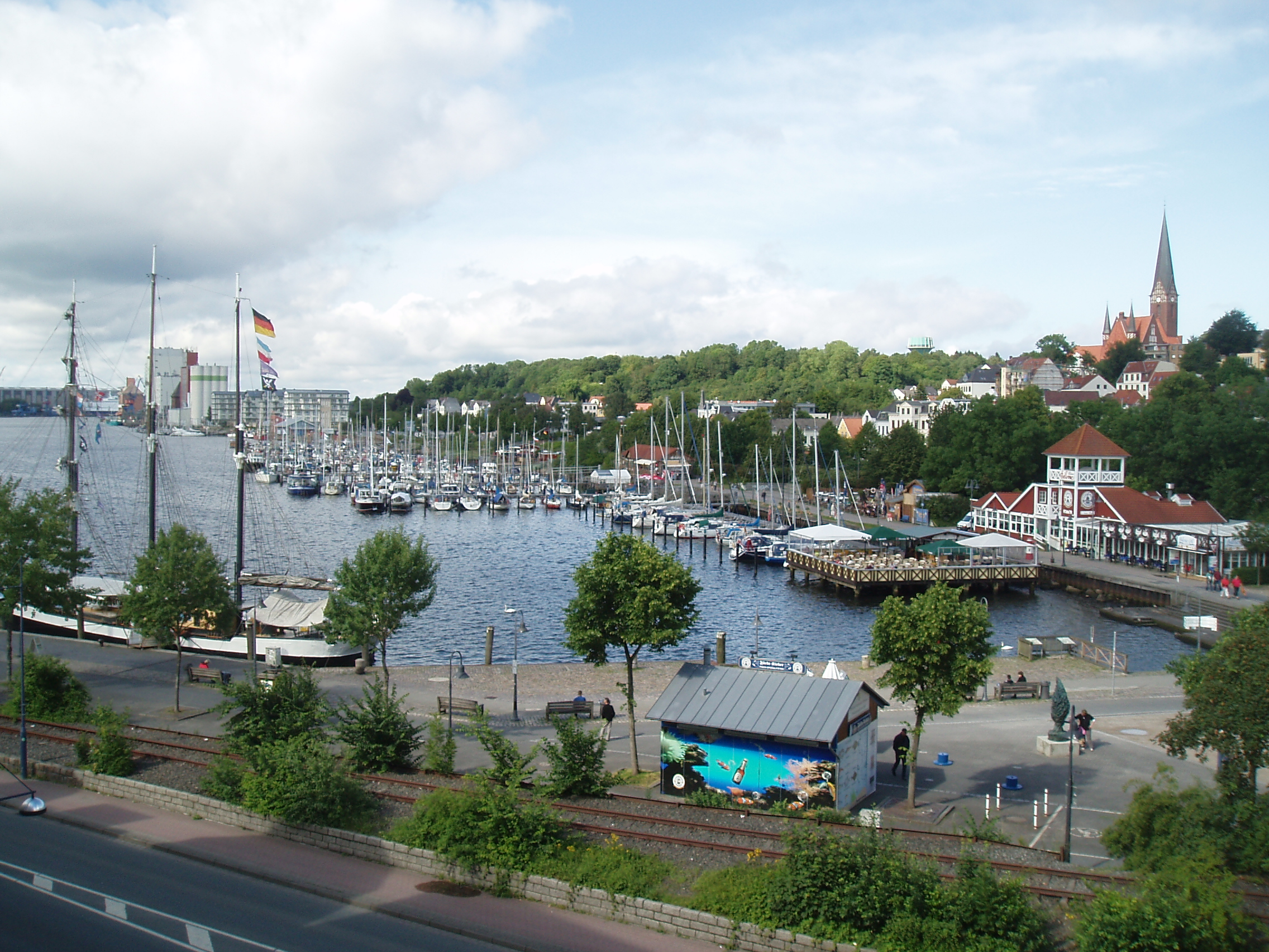 View of Flensburg Harbour